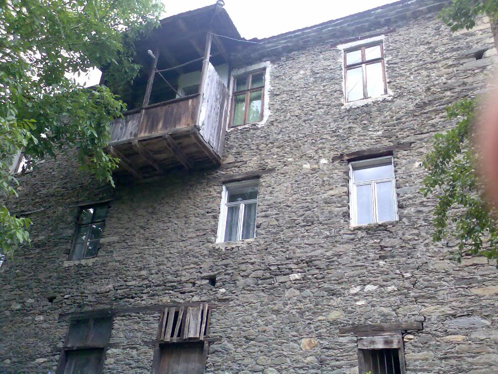 Village of Topolnitsa, Poreche region, Republic of Macedonia